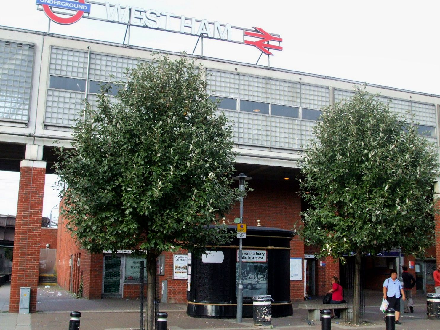 West Ham station building, with entrance at bottom left. Served by District/Hammersmith & City line and the London, Tilbury & Southend line (c2c) on the high level, and the Jubilee line (and Docklands Light Railway from 2010) on the low level.